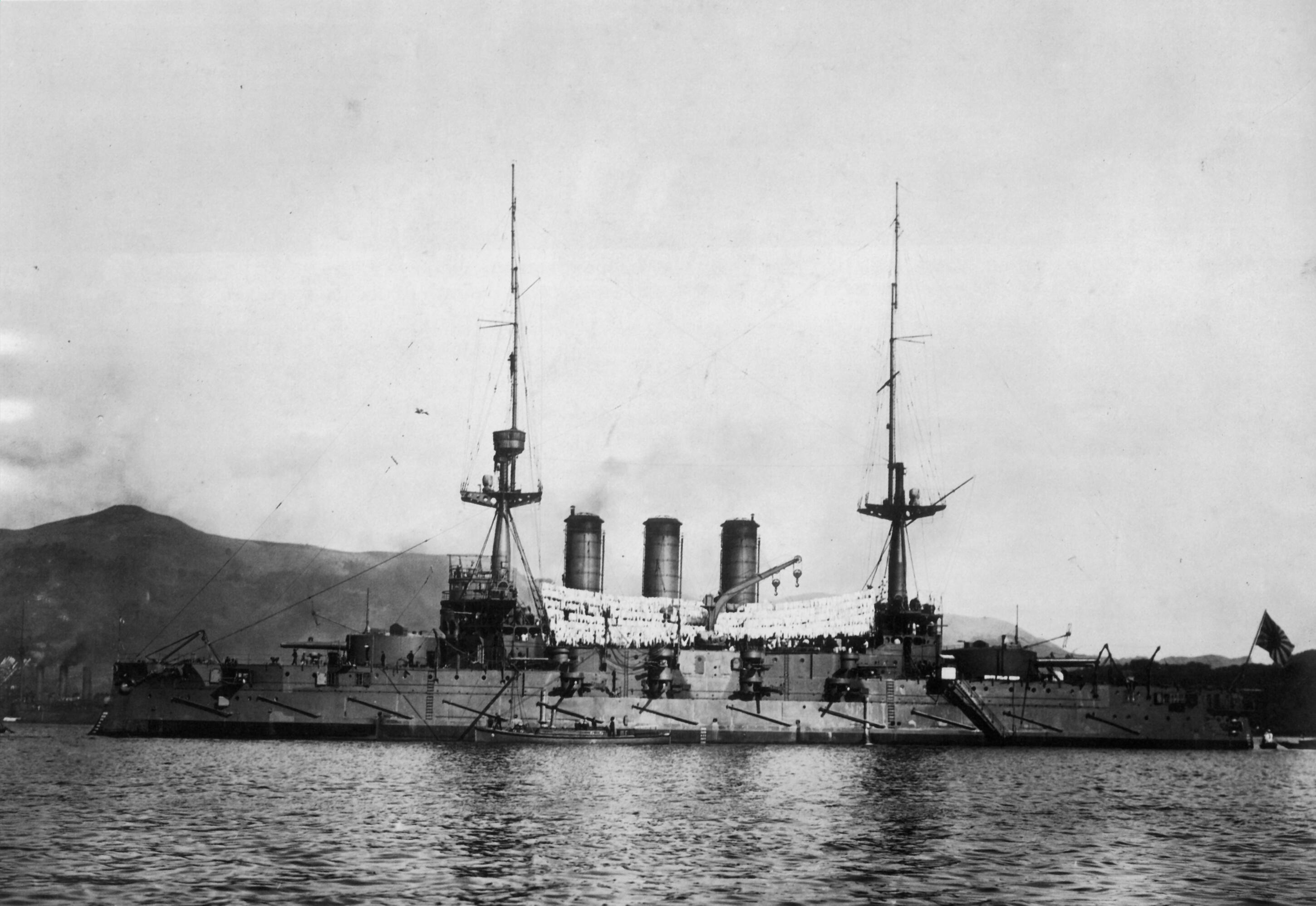 Battleship Hizen.